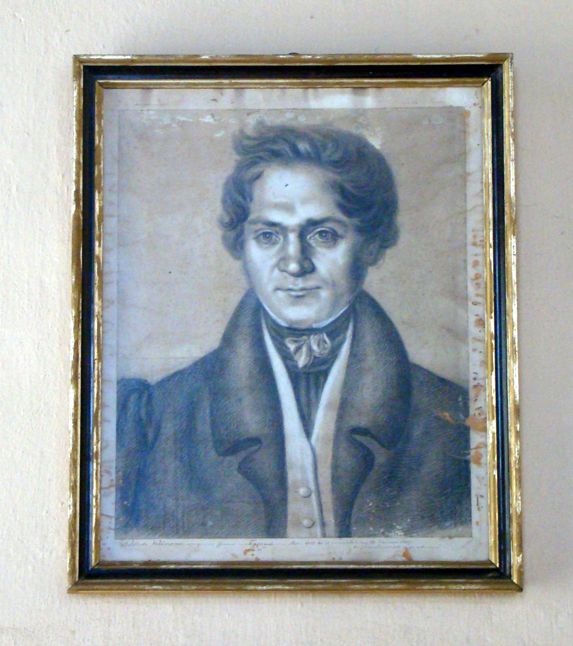 Lutheran church in Făgăraș, Brașov County, Romania